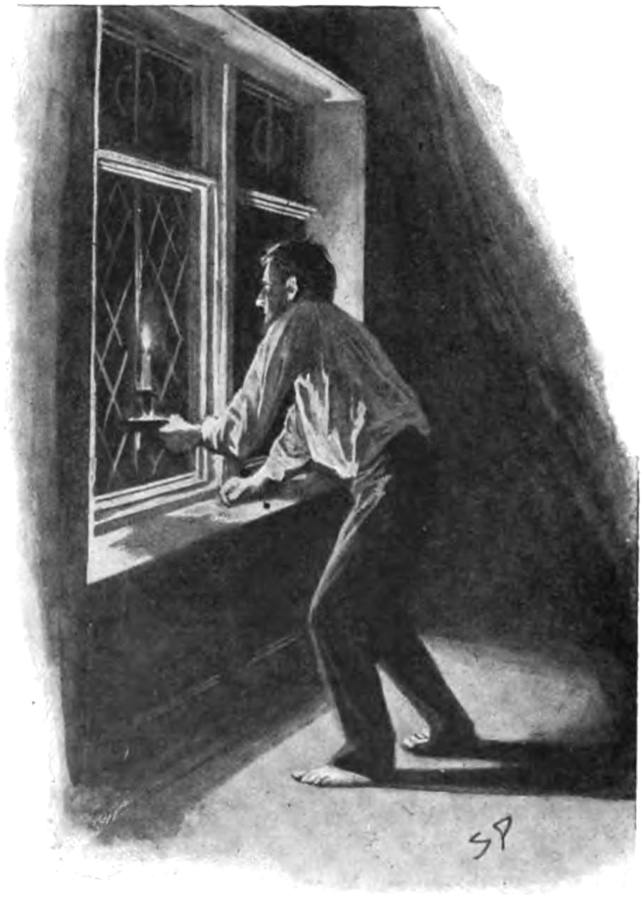 Illustration of the Sherlock Holmes adventure The Hound of the Baskervilles. Illustration appeared in The Strand Magazine in November, 1901. Original caption was "HE STARED OUT INTO THE BLACKNESS."